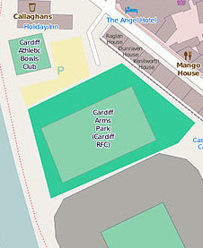 Map of the Millennium Stadium and Cardiff Arms Park + Cardiff Athletic Bowls Club, Cardiff.